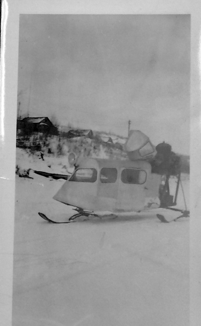 Photo taken in Red Lake, Ontario , Canada in 1937 George Miller's Skimobile Taxi Powered by Airplane Motor